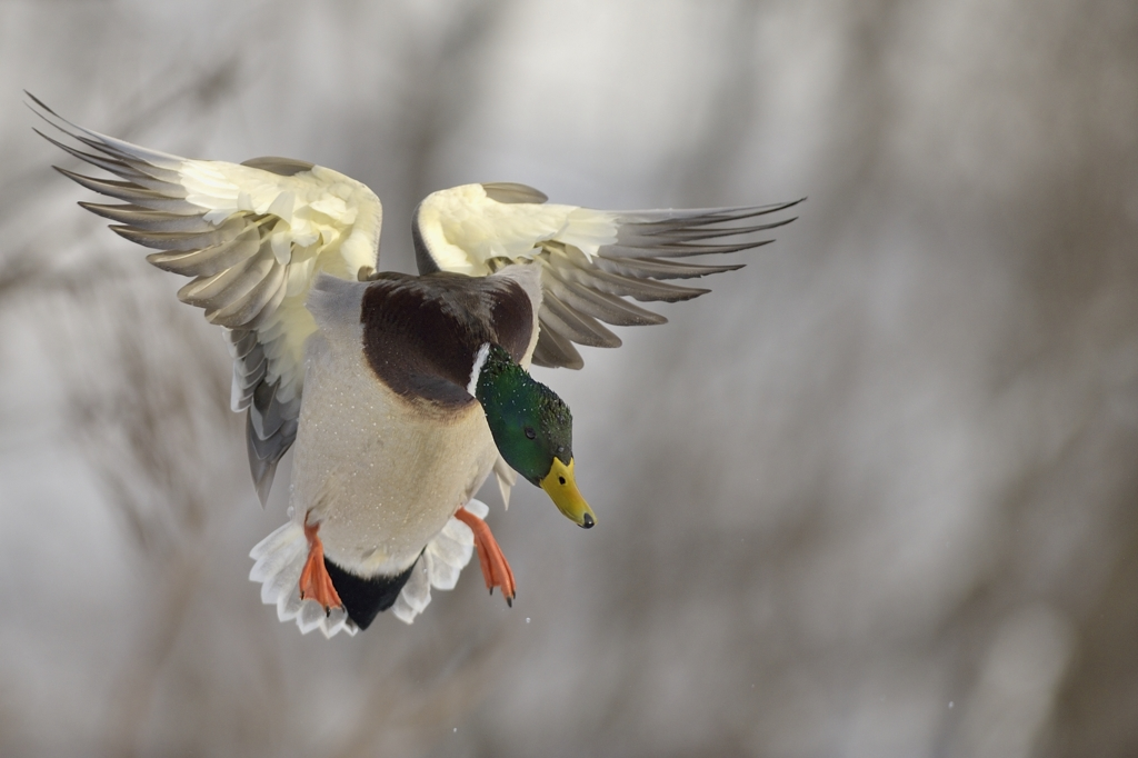 mallrd drake inflight